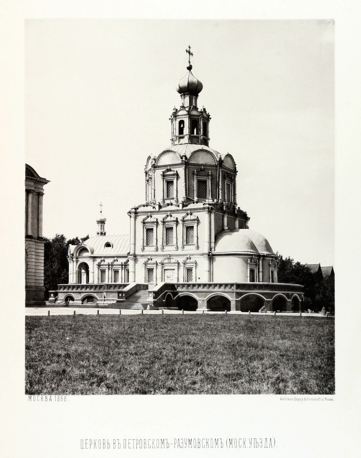 Plate 42: Church in Petrovsko-Razumovskoe.